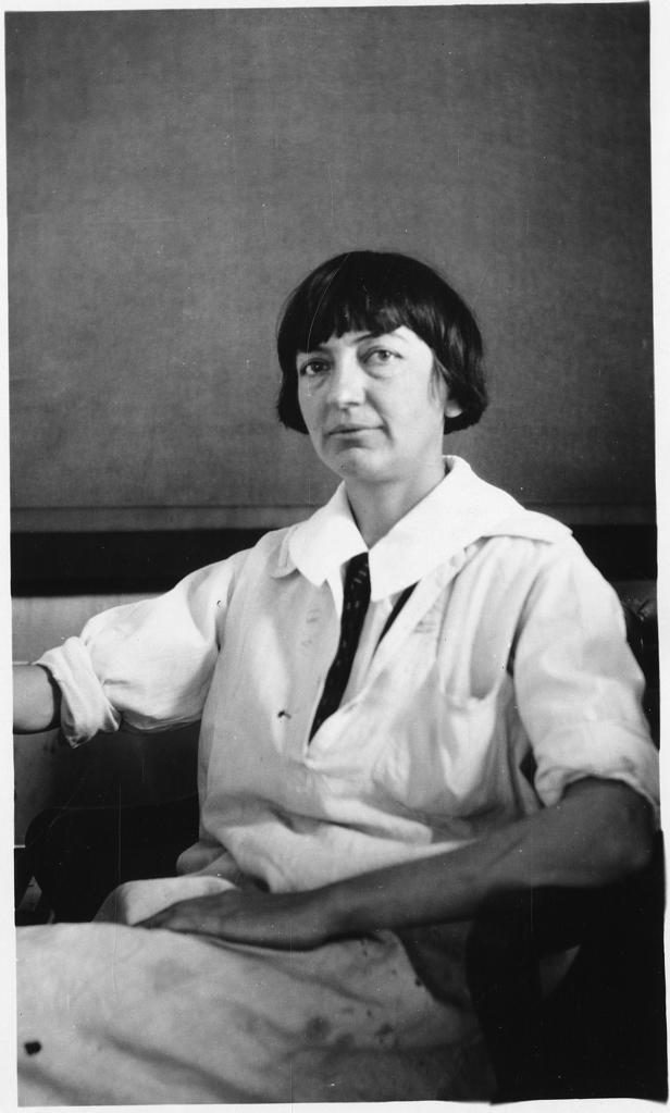 Biochemist Ethel Ronzoni Bishop (1892-1975) taught at Washington University Medical School. After attending Mills College (B.S., 1913) and Columbia University (M.A., 1914), she taught home economics at University of Missouri and University of Minnesota and then in 1918 began graduate study at University of Wisconsin, where she earned Ph.D. in physiology in 1923. At Wisconsin, she met and married physiologist George Holman Bishop (1889-1973) [cross-reference to SIA Digital No. 2007-0234]. They moved to St. Louis and both joined the Washington University faculty, where she taught biological chemistry and neuropsychiatry until she retired in 1959.